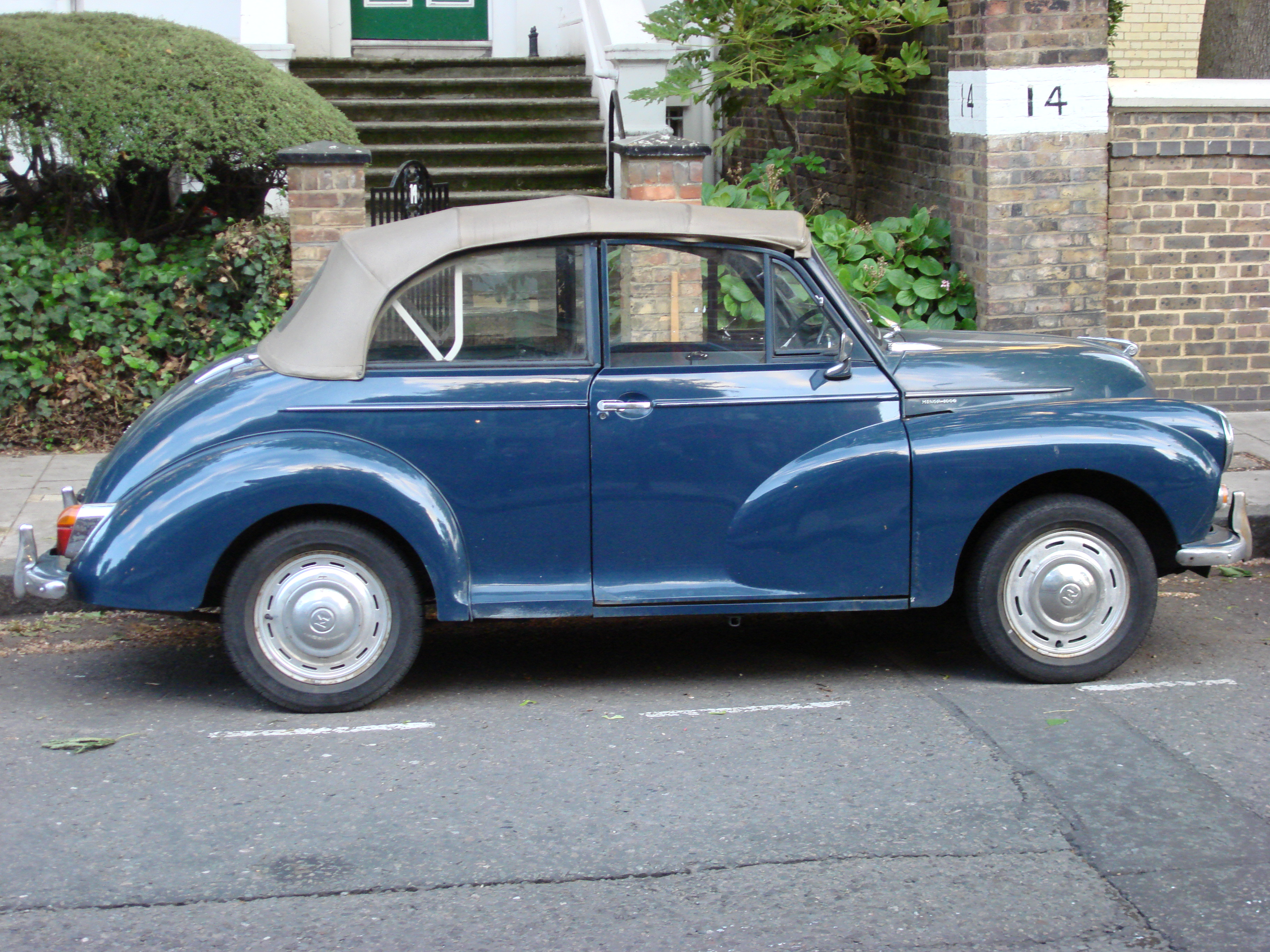 Morris Minor Convertible